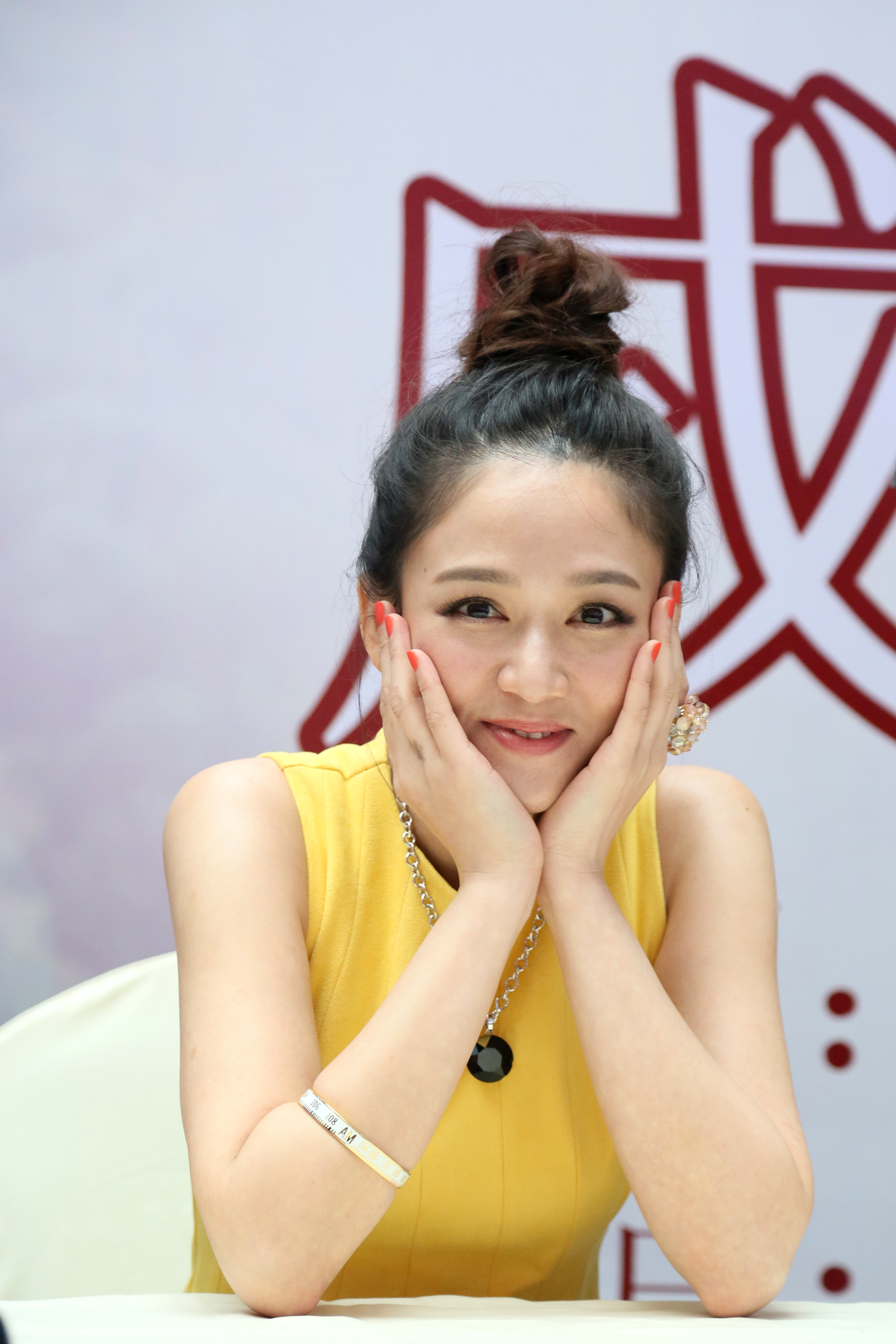 Joe chan 20130531